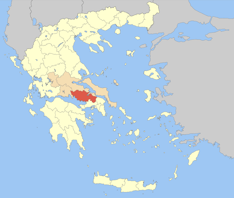 Locator map of Boeotia (Viotia) prefecture (Νομός Βοιωτίας) in Greece